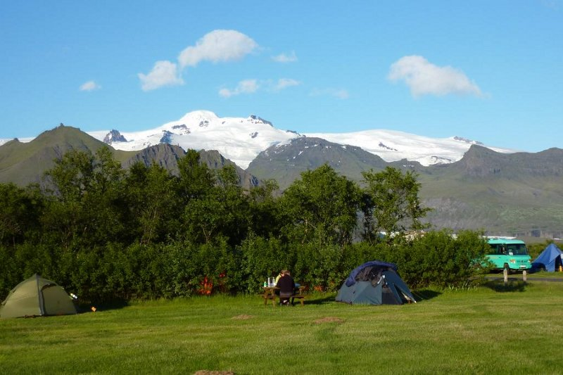 At the campsite in Skaftafell, Vatnajökull National Park.